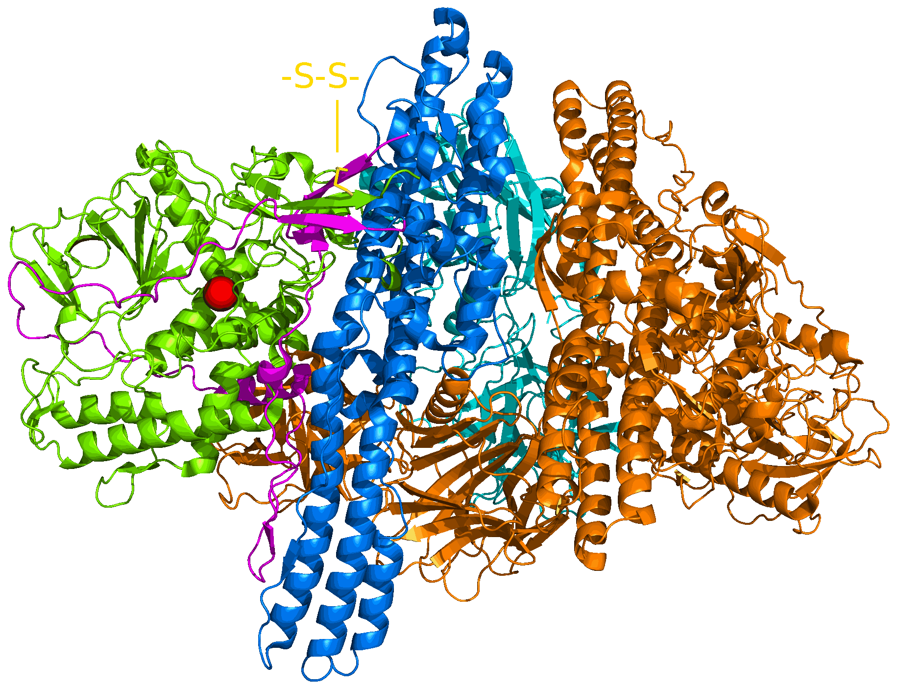 Botulinum toxin A1 (BoNT/A1) in complex with a clostridial non-toxic non-hemagglutinin (NTNHA or NTNH). PDB: 3V0A. Naturally occurring botulinum toxins are always combined with their corresponding NTNHA into a minimally functional progenitor toxin complex (M-PTC). Botulinum toxins always consist of 2 peptide chains: light and heavy. NTNHA (orange). Light chain (green) binds a zinc ion (red) as a cofactor. Light chain is linked to heavy chain's N-terminal "belt" by a disulfide bond (yellow, -S-S-). Heavy chain (H) has 3 parts: magenta: "belt" (N-terminal) N-terminal translocation domain AKA HN receptor-binding domain AKA HC (C-terminal) Sources: Dong M, Stenmark P. (2019) The Structure and Classification of Botulinum Toxins. In: Handbook of experimental pharmacology. Springer. (Fig. 5) Nat Commun. 2018; 9: 5367. (Fig. 1)